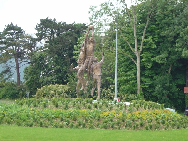 Kerry Gaelic Football memorial Ireland’s largest sports sculpture celebrating the Kerry Gaelic Football tradition. The 5 metre high bronze sculpture by Co. Mayo based sculptor Mark Rhode is sited on a raised mound in the centre of the Clashlehane Roundabout on the eastern road into Tralee. Unveiled on 14th May 2007.